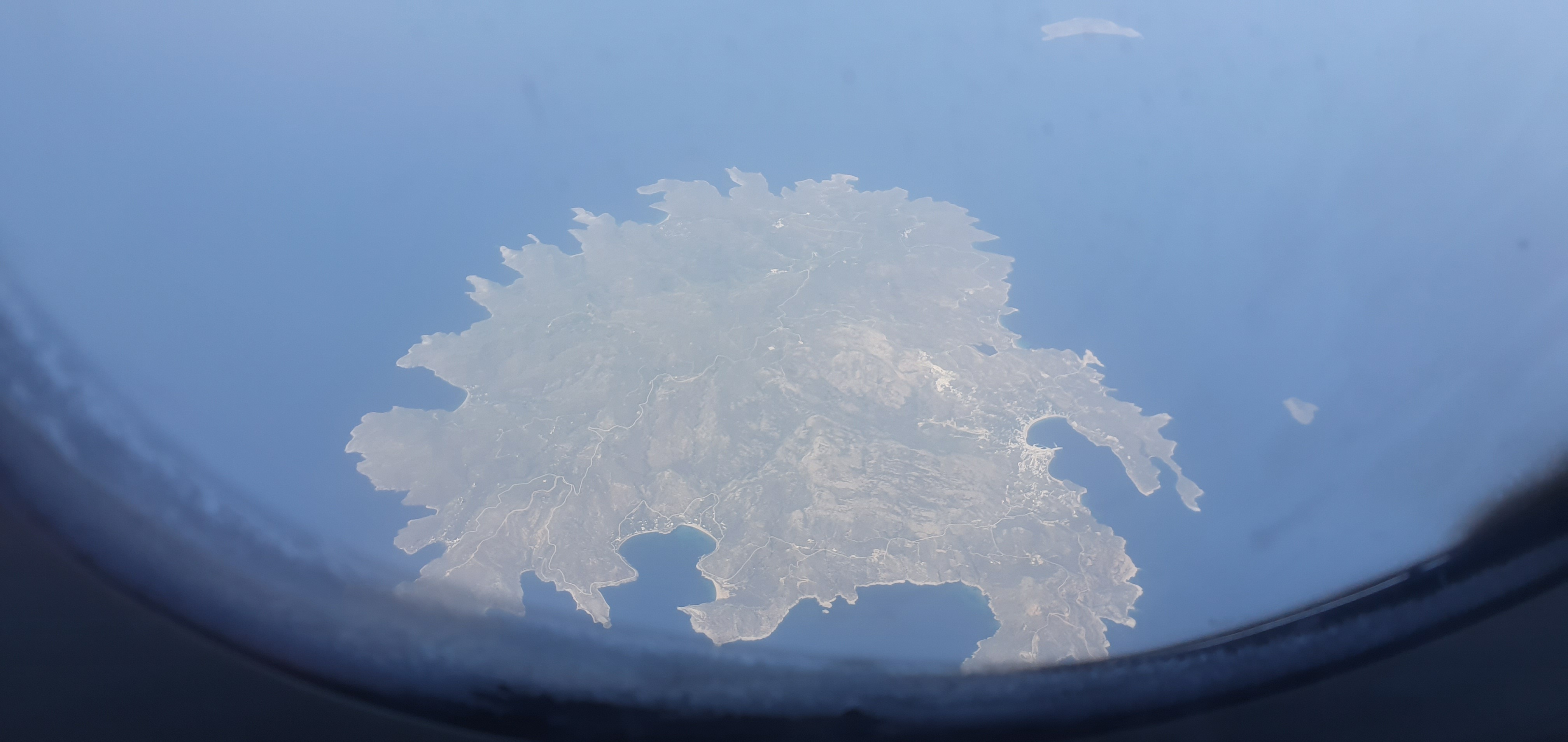 Serifos island airview